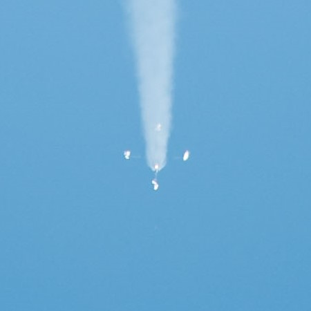 Korolyov cross, Soyuz TMA-04M rocket